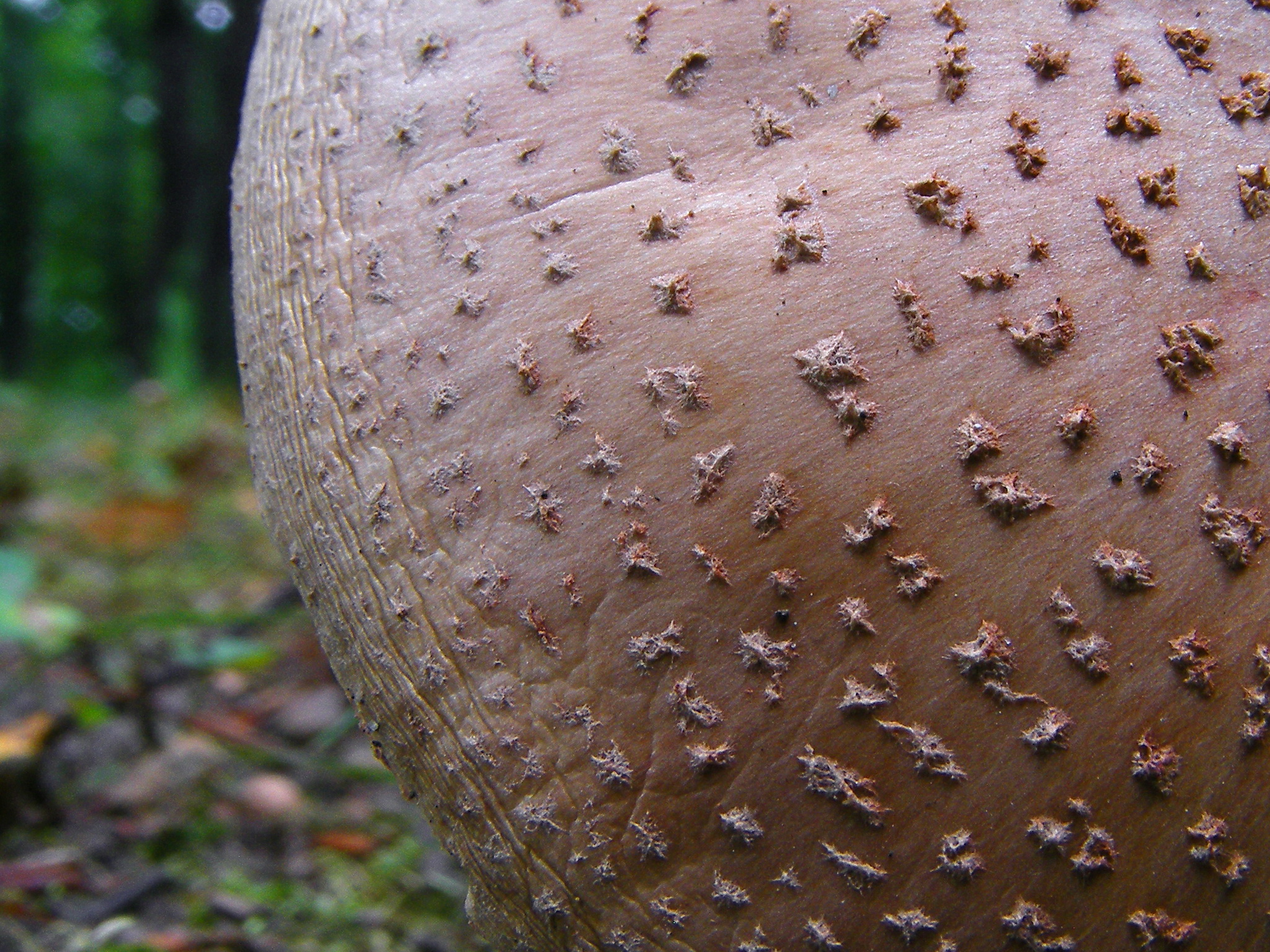 Amanita rubescens - pileus close-up.